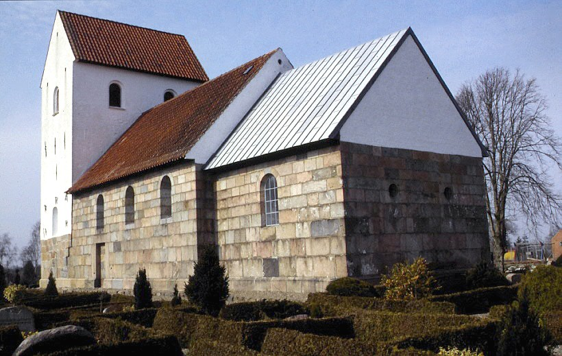 Hvilsom Kirke in Mariagerfjord Kommune from apr. 1200